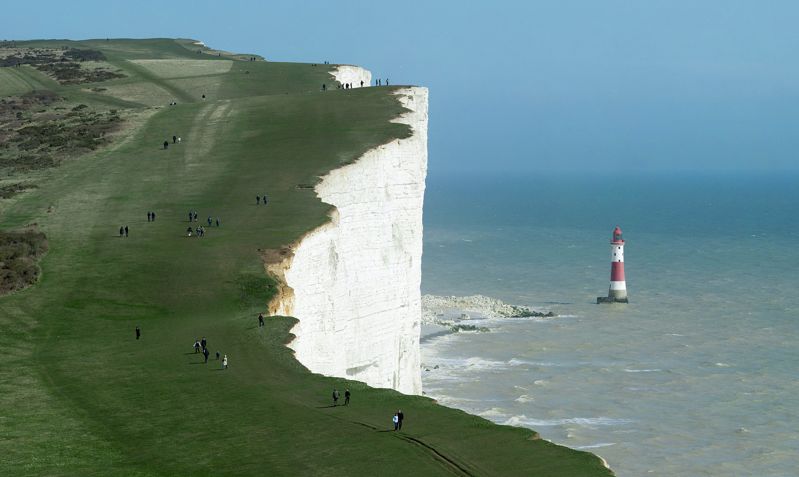 The cliffs of Beachy Head and the Lighthouse below, as viewed along the South Downs Way in East Sussex, England.